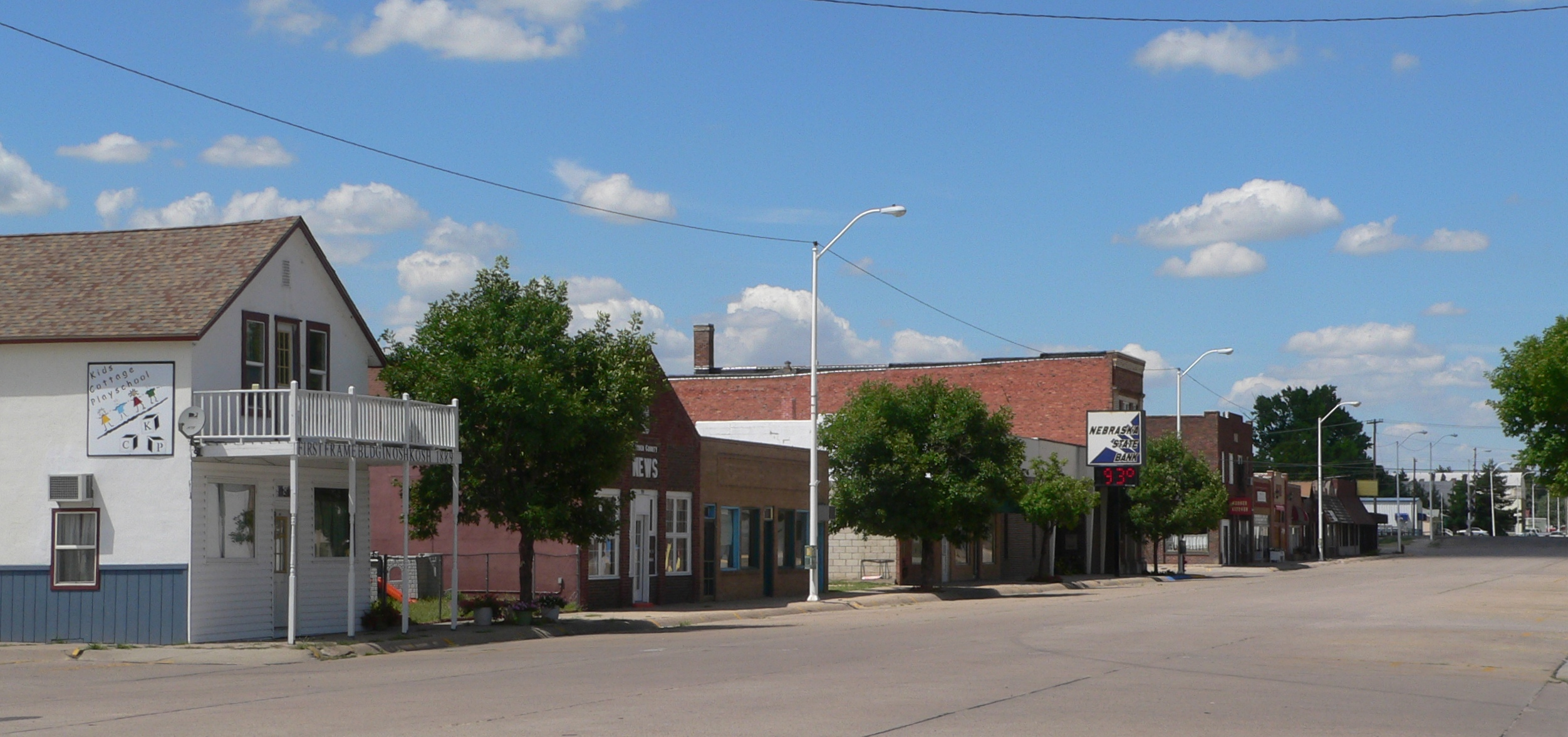 Downtown Oshkosh, Nebraska: west side of Main Street, looking north from about Avenue B.